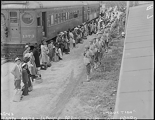 Arcadia, California — 4 April, 1942. Japanese Americans from the San Pedro Pacific Electric Railway (Red Cars) station arrived at the Santa Anita Race Track to await internment processing. They lived here at the Santa Anita Assembly Center until sent to inland Internment Camps. Those awaiting processing here lived in hastily constructed barracks and in existing stables, with 8,500 in converted Santa Anita Race Track horse stalls. U.S. NPS: Santa Anita Assembly Center, California (webpage).